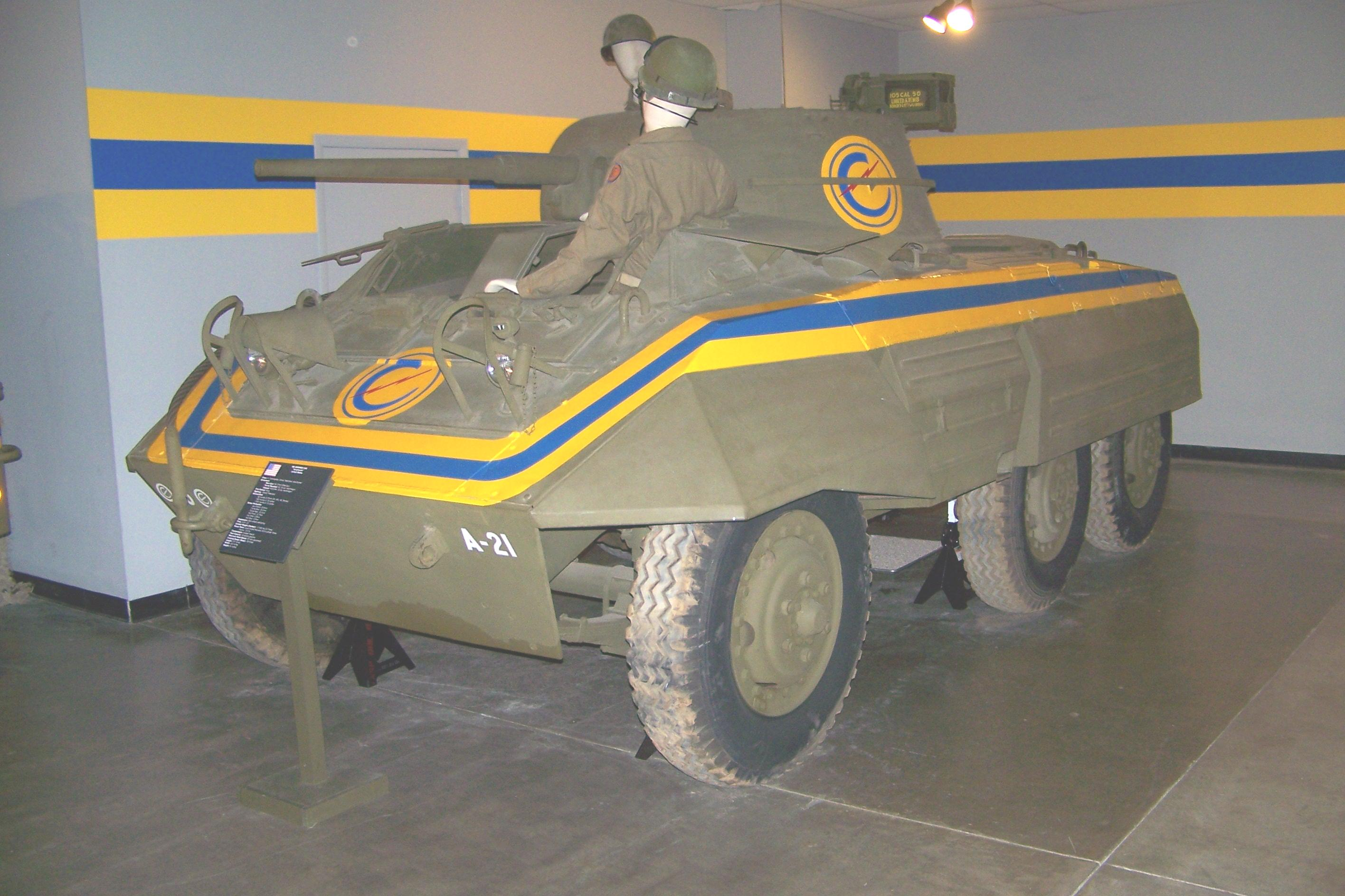 Armored car with Constabulary paint job.